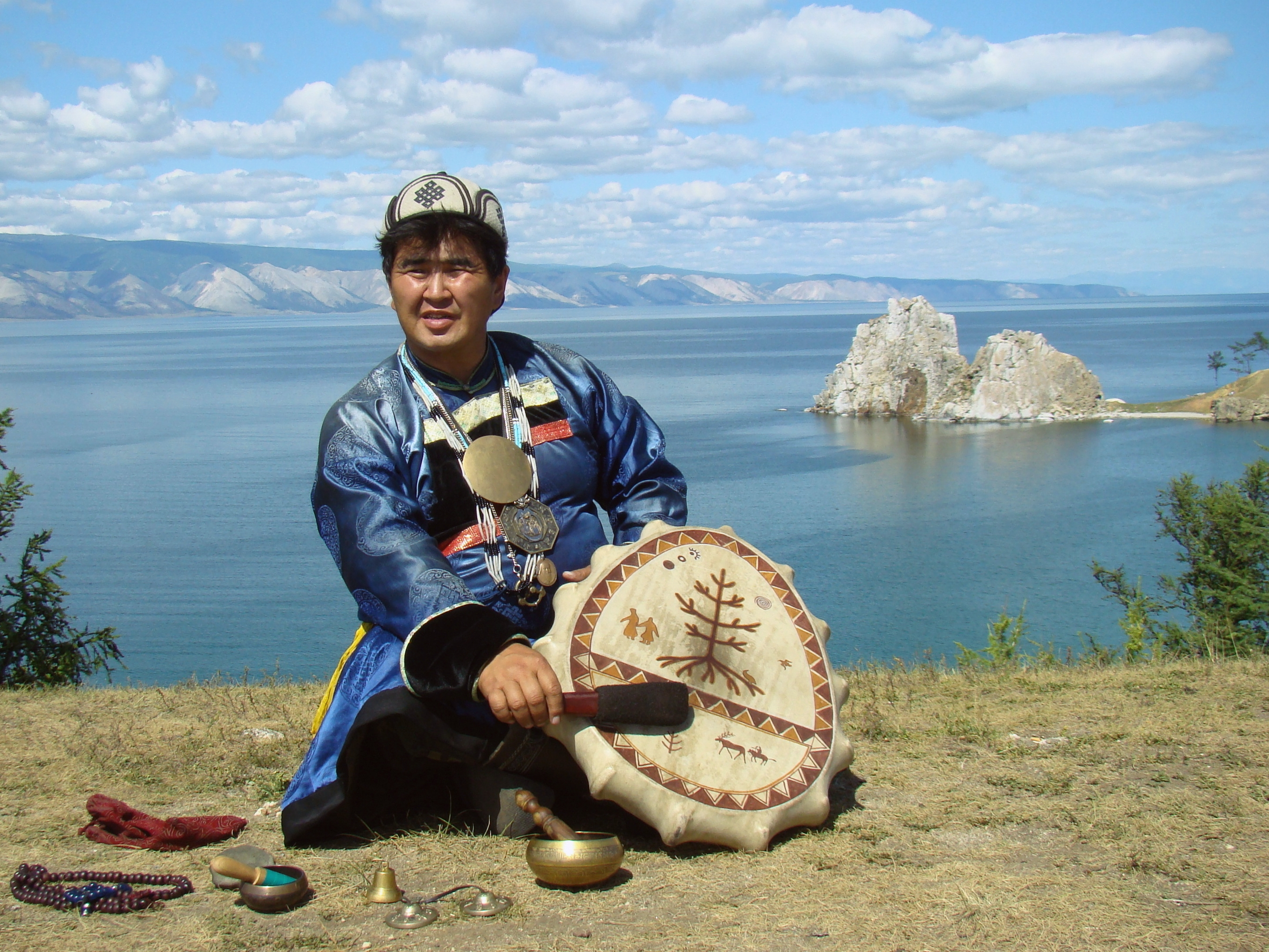 Valentin Hagdaev - head shaman of Olkhon. Lake Baikal. Buryatia. Siberia